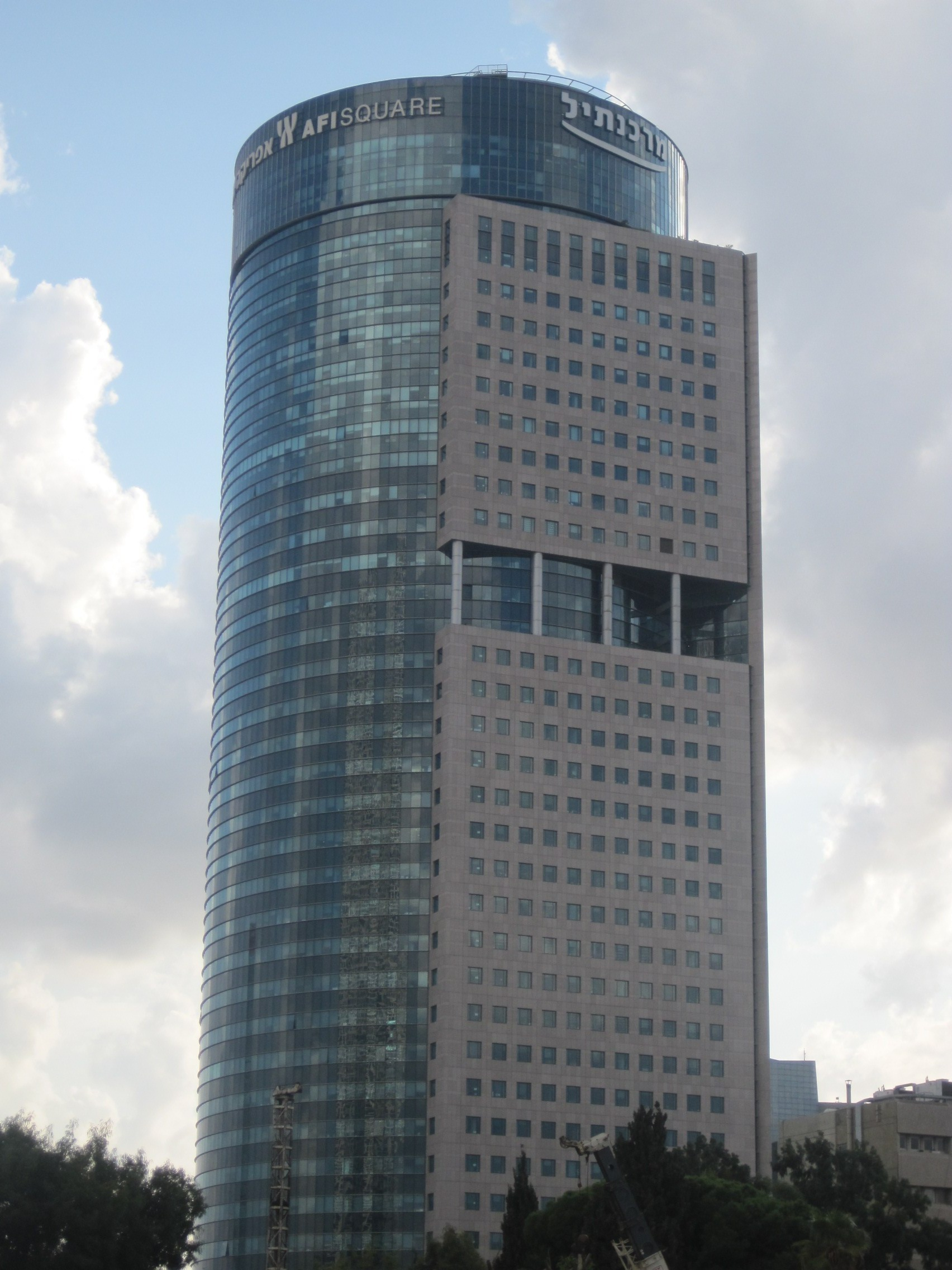 Africa-Israel on Begin Road